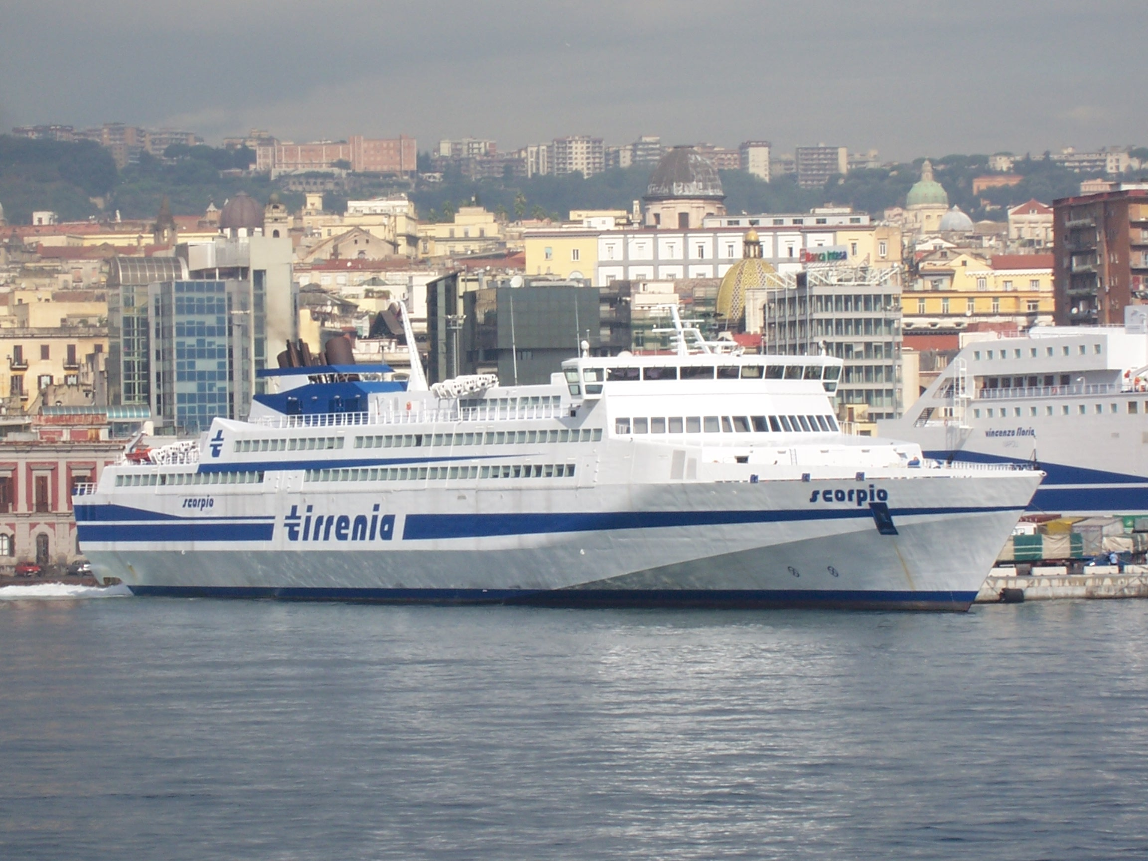 HSC Scorpio the fast ferry of the Tirrenia di Navigazione into Naples harbour IMO Number: 9179660 MMSI Number: 247404000 Callsign: IBEK Length: 140 m Beam: 22 m